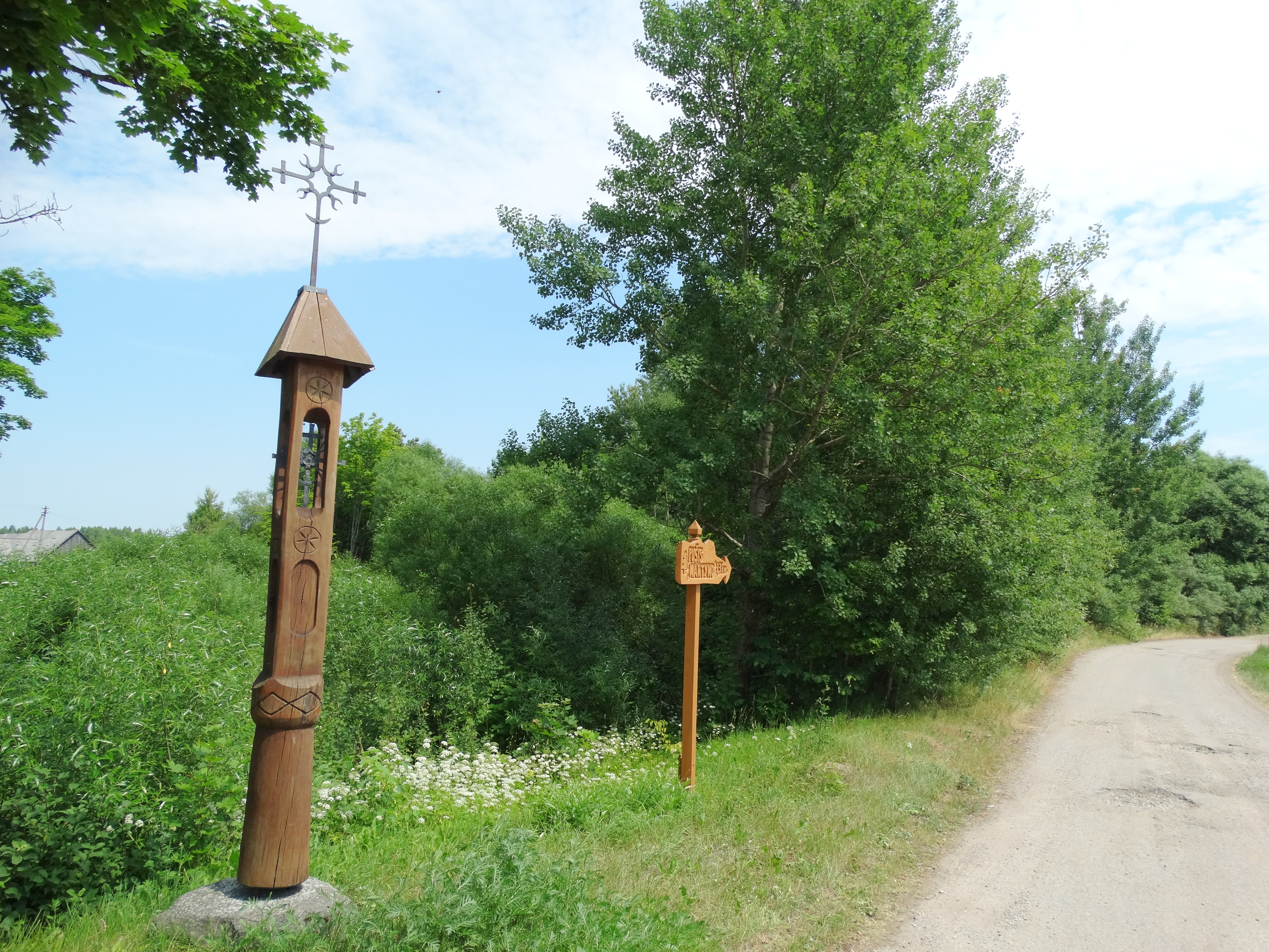 Signpost to St. Martin's pine tree, Kelmė district, Lithuania